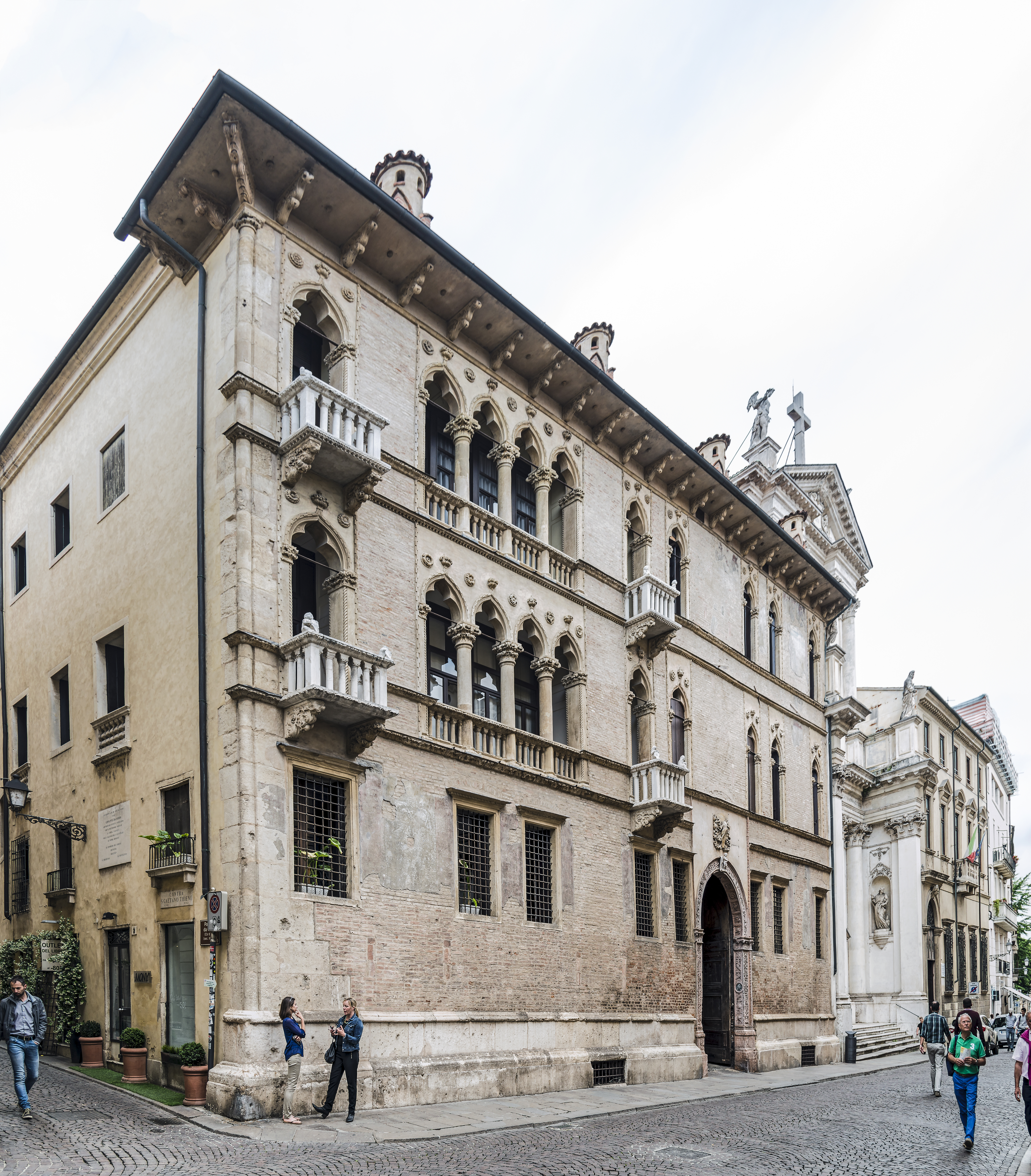 Palace Caldogno-From Toso-Franceschini-from Schio, better known as Ca 'd'Oro, is a noble palace in Vicenza, located along Corso Palladio, next to the Church of San Gaetano.